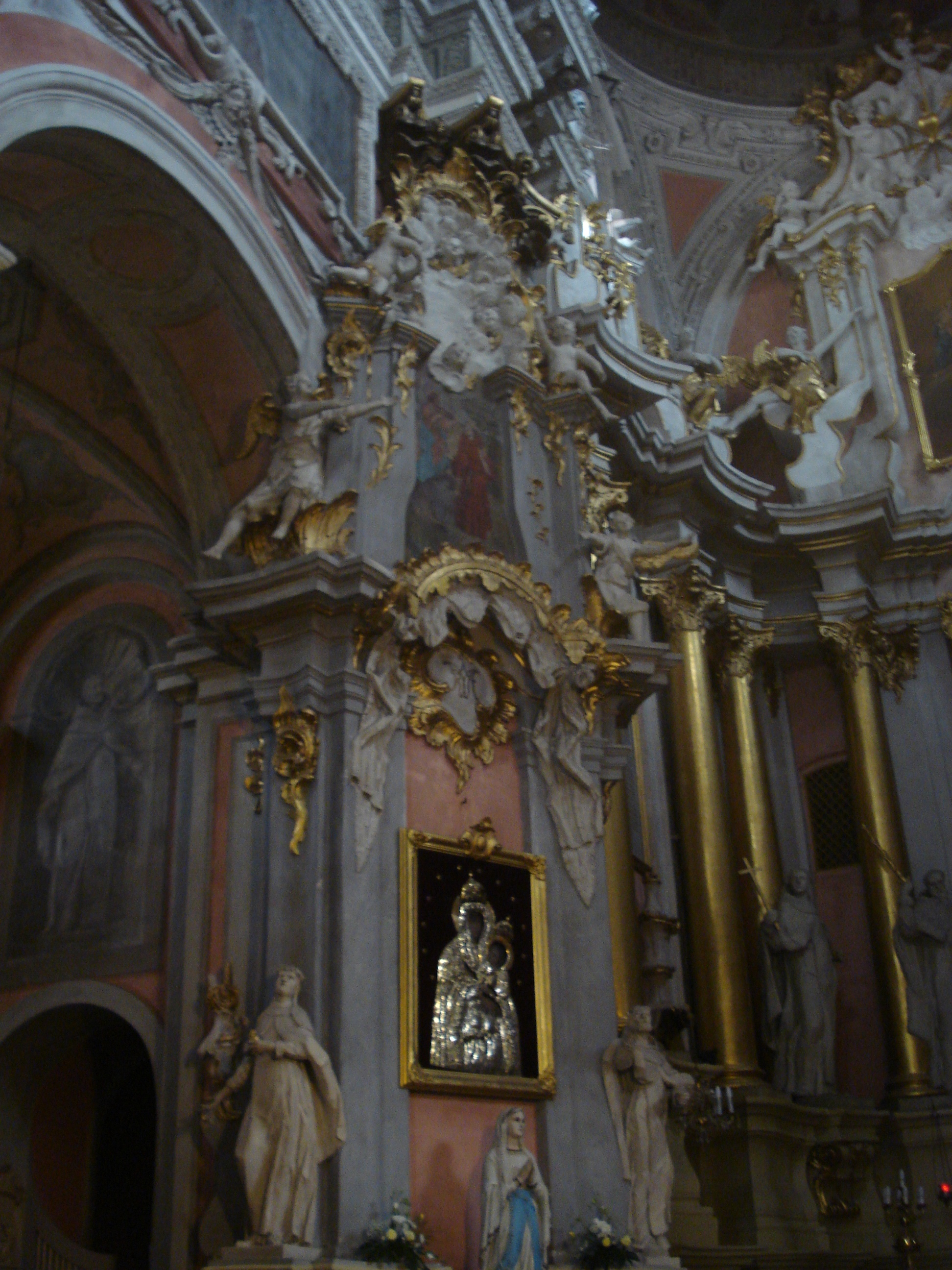 Left altar in the Church of the St Teresa in Vilnius (Aušros Vartų g. 14)